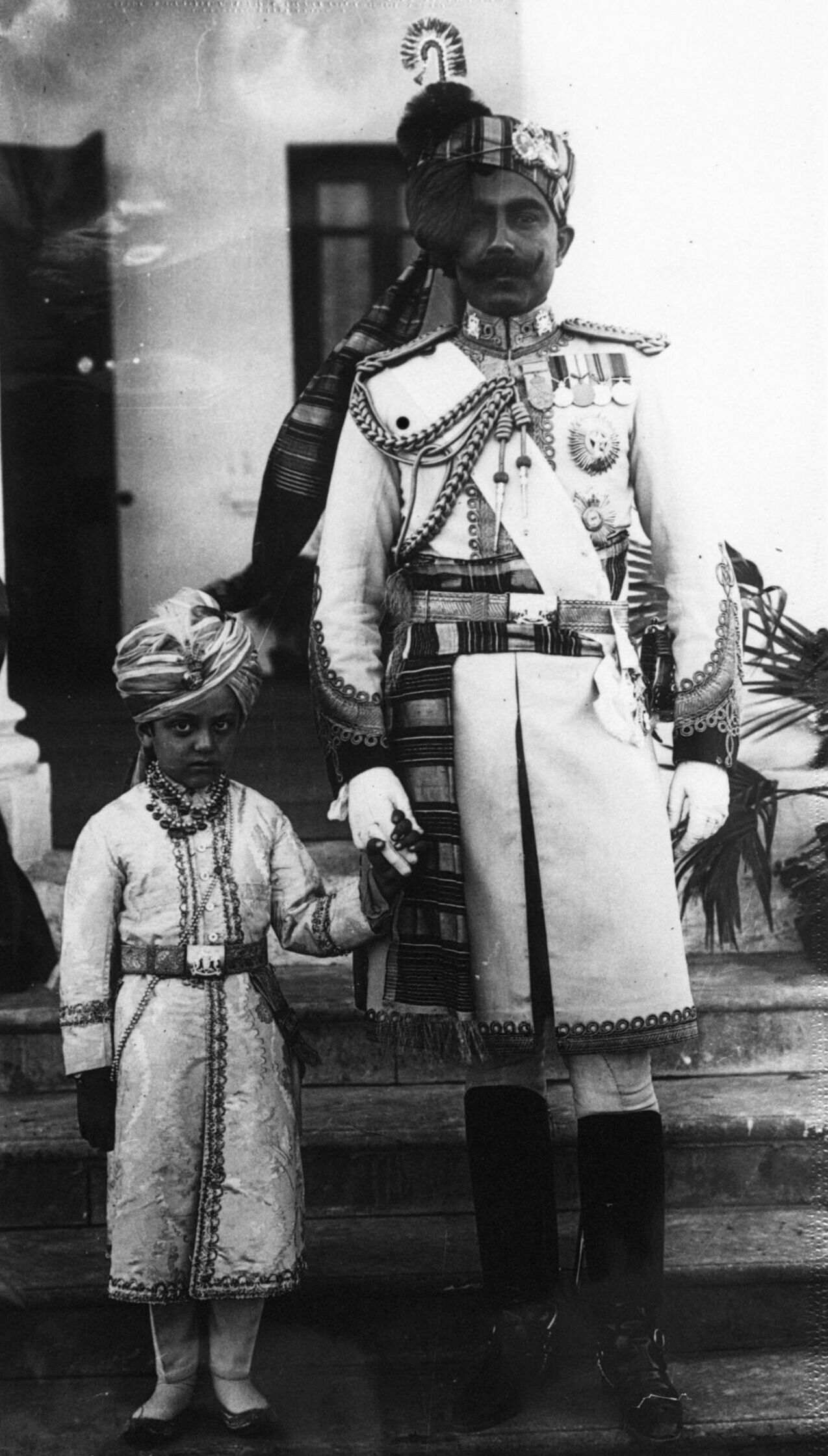 Maharajah Ganga Singh of Bikaner with his son in 1914